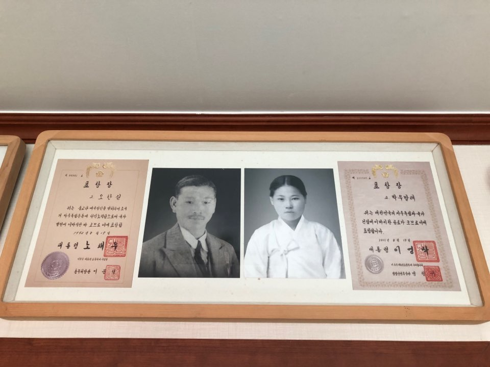 Independence Activist